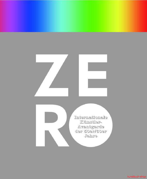 ZERO by Hatje